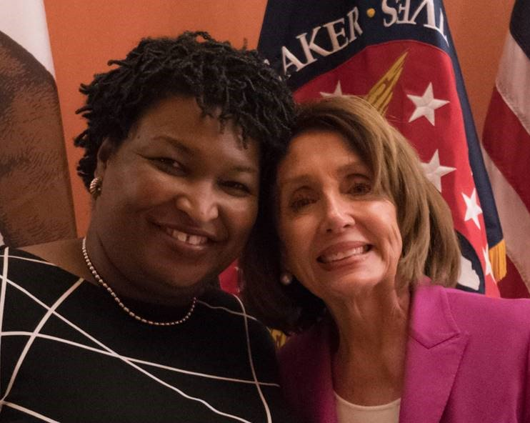 We are thrilled to have Stacey Abrams deliver the Democratic Response to the State of the Union. Her electrifying message reinvigorated our nation & continues to inspire millions in every part of the country